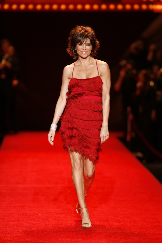 Lisa Rinna modeling at The Heart Truth Fashion Show 2008